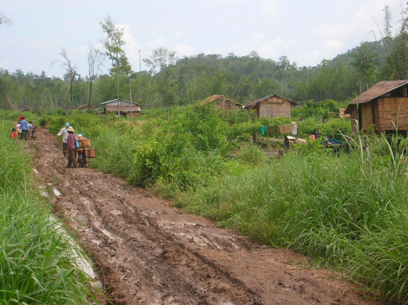 It's not easy going into town during the rainy season. Photo taken by Brett Matthews, in Ocha Krom town in the Pailin enclave in Cambodia, September 2005.